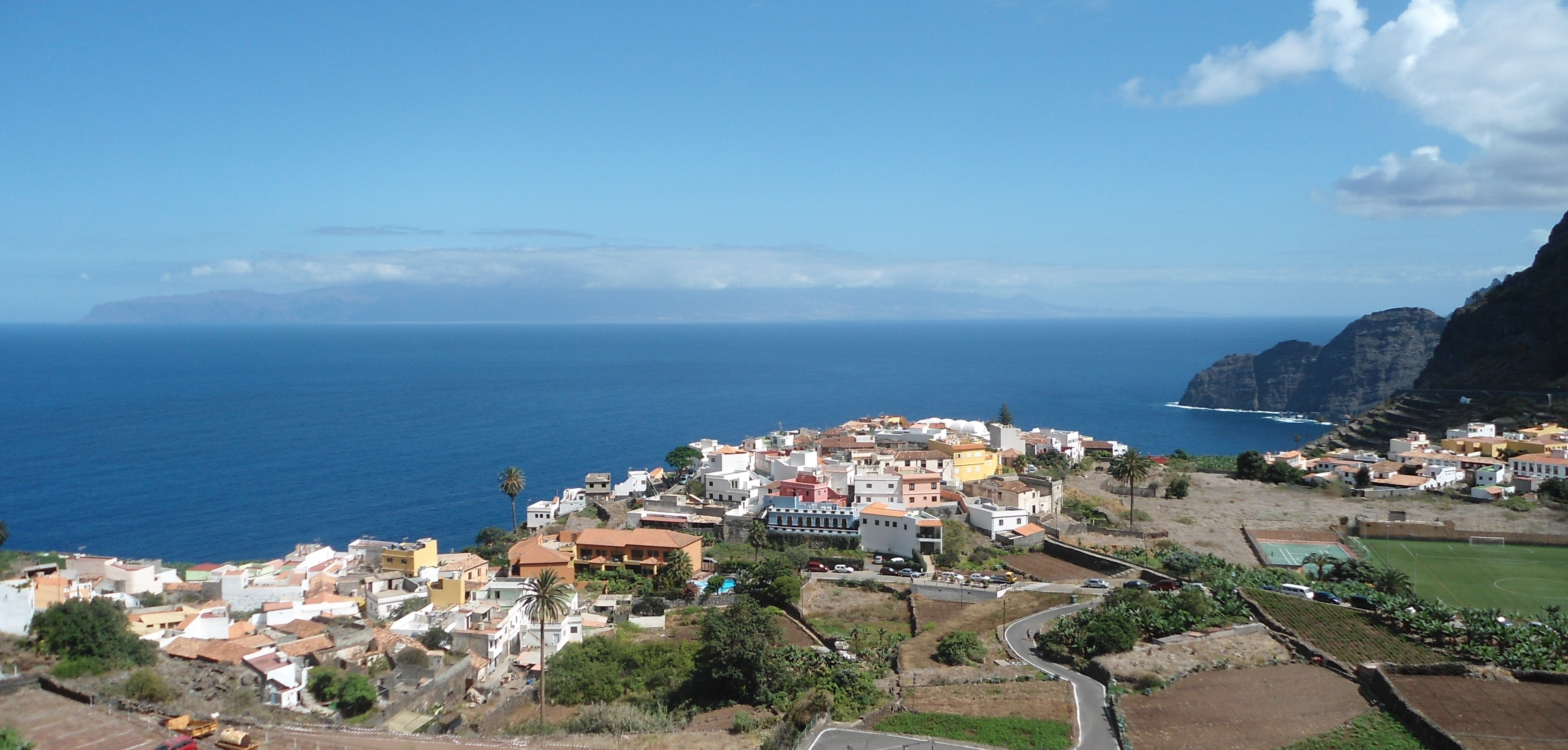 View of houses in a part of Agulo on La Gomera